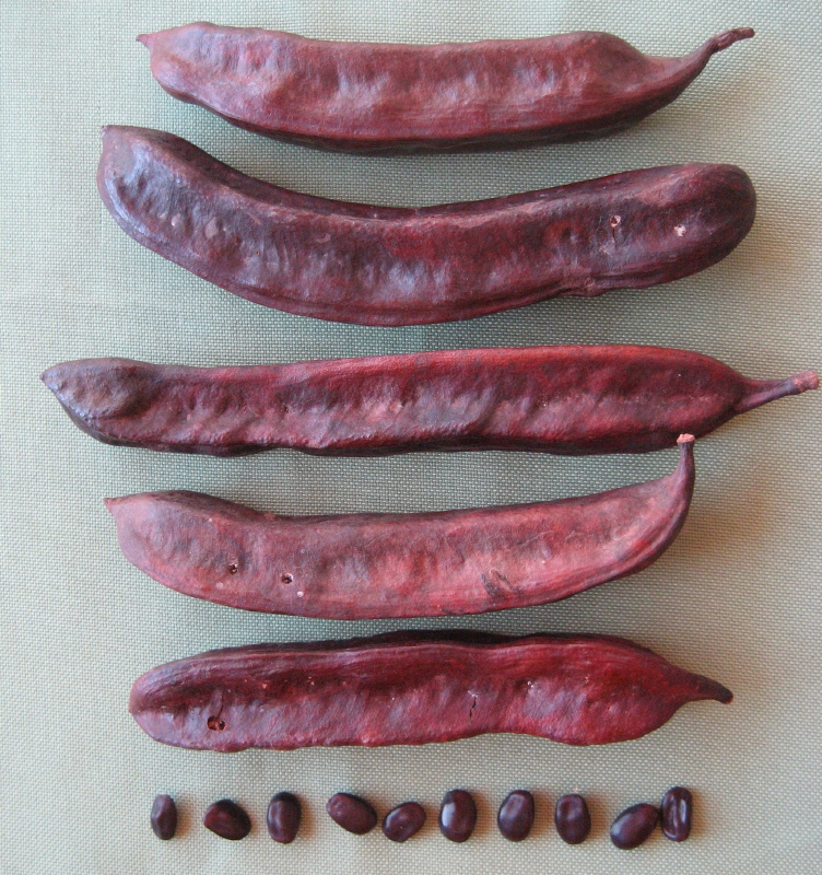 "Mutindiri" is the local name for this hunger food. The seeds of the Scotsman's rattle are eaten as a protein-rich food in times of famine in Machaze district of Manica province in Mozambique